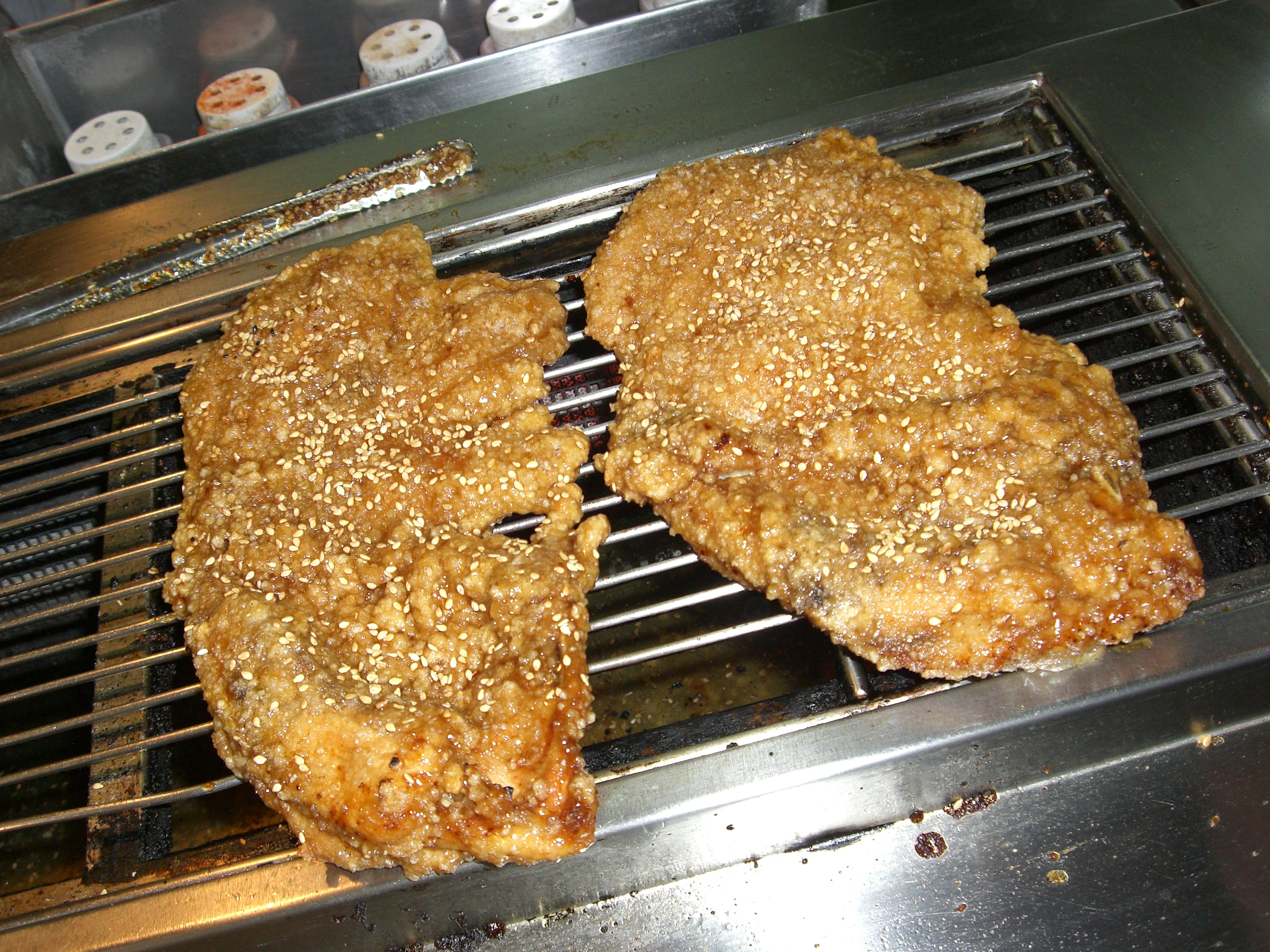 This fried chicken steak is really sweet and absolutely delicious. It is a specialty of Shilin Market.